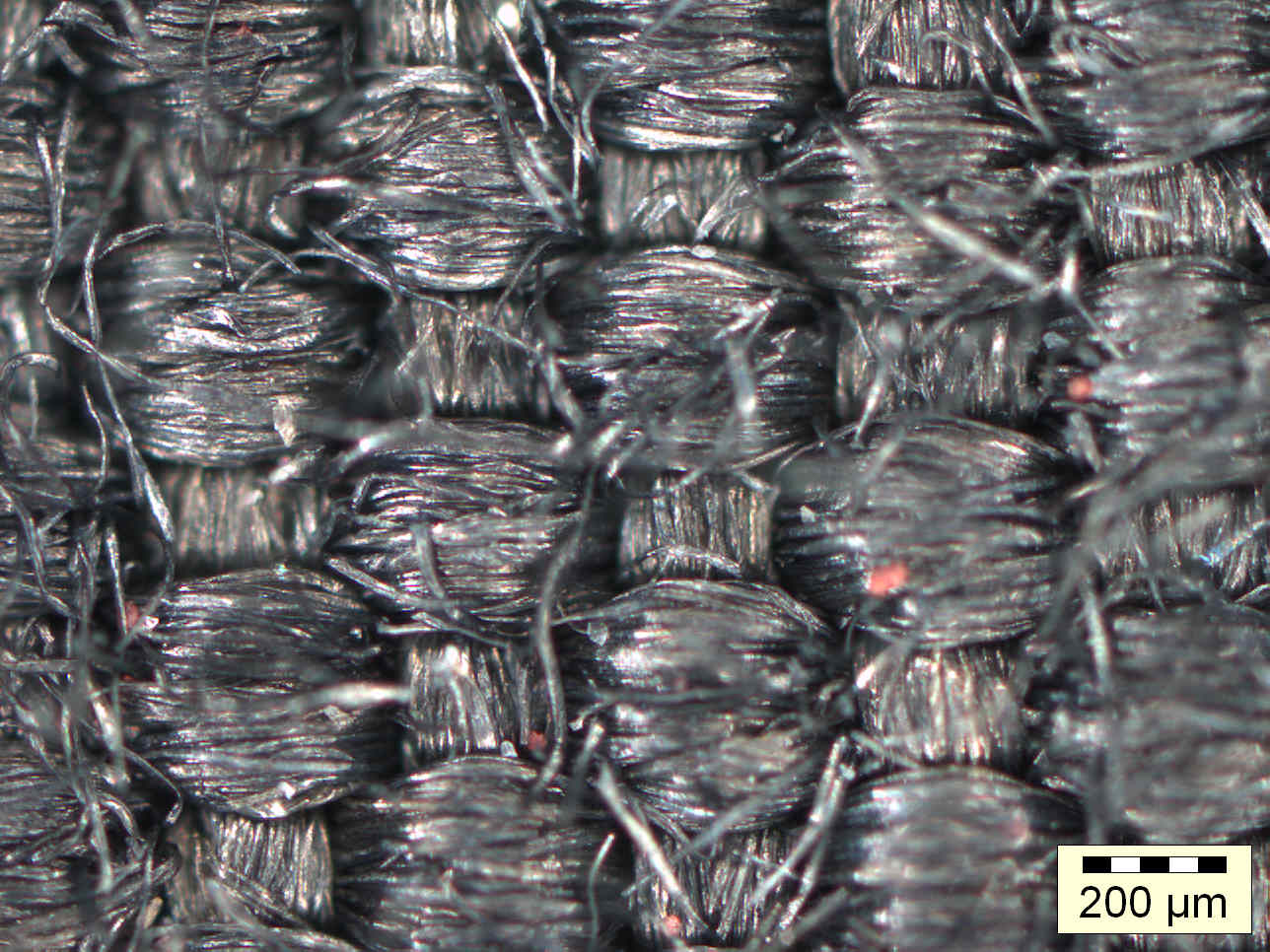 100 enlargement of Etaproof 5620.1 organic cotton